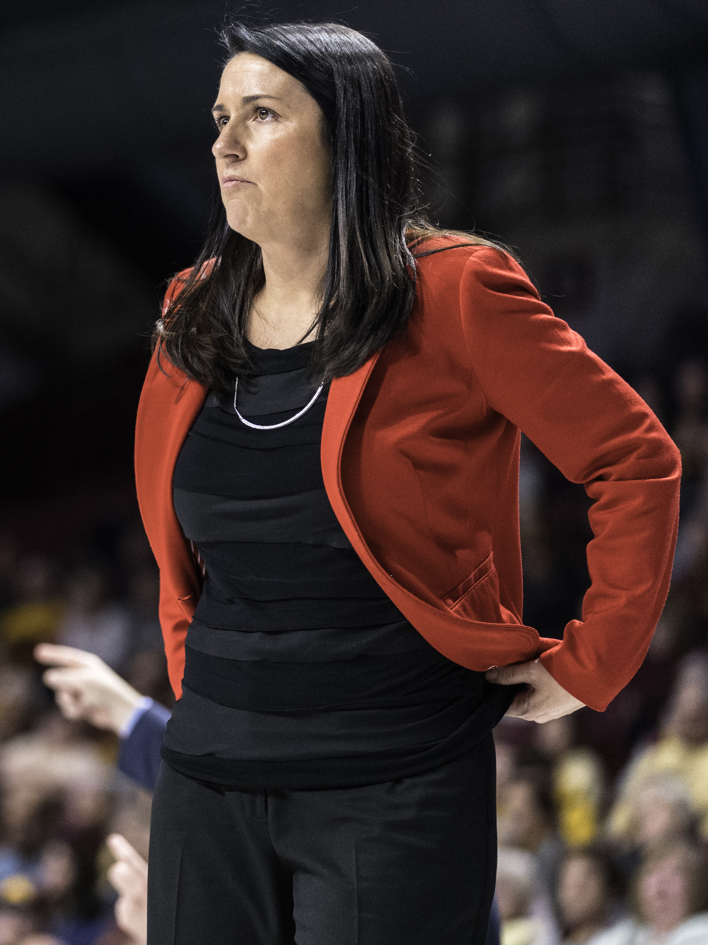 Nebraska Cornhuskers women's basketball head coach Amy Williams in a game against the Minnesota Gophers